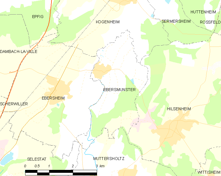 Map of French municipality